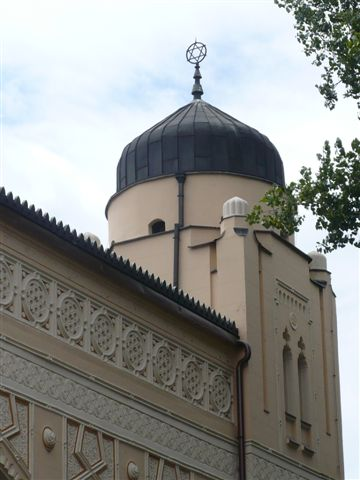 Synagogue in Sarajevo